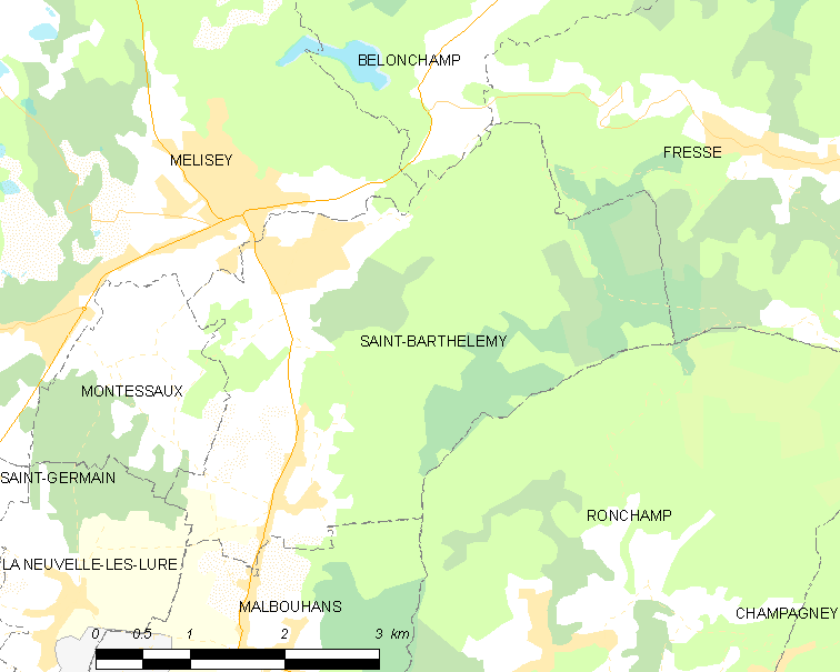 Map of French municipality